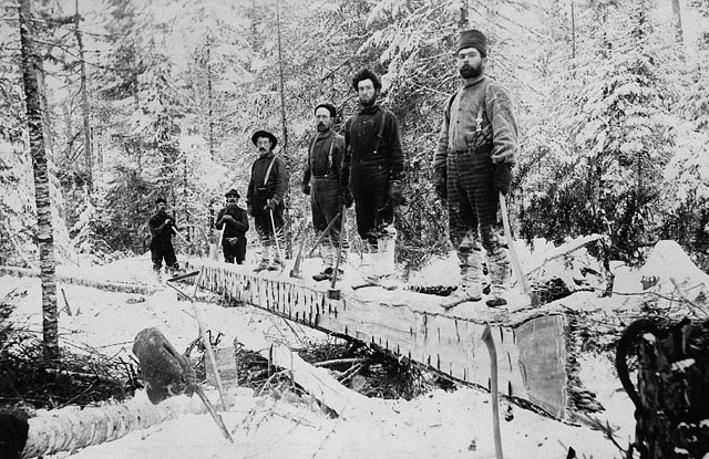 Booth lumber camp Aylen Lake Ontario ca 1895. Six or more men hewing a log into a timber where it fell in the woods.